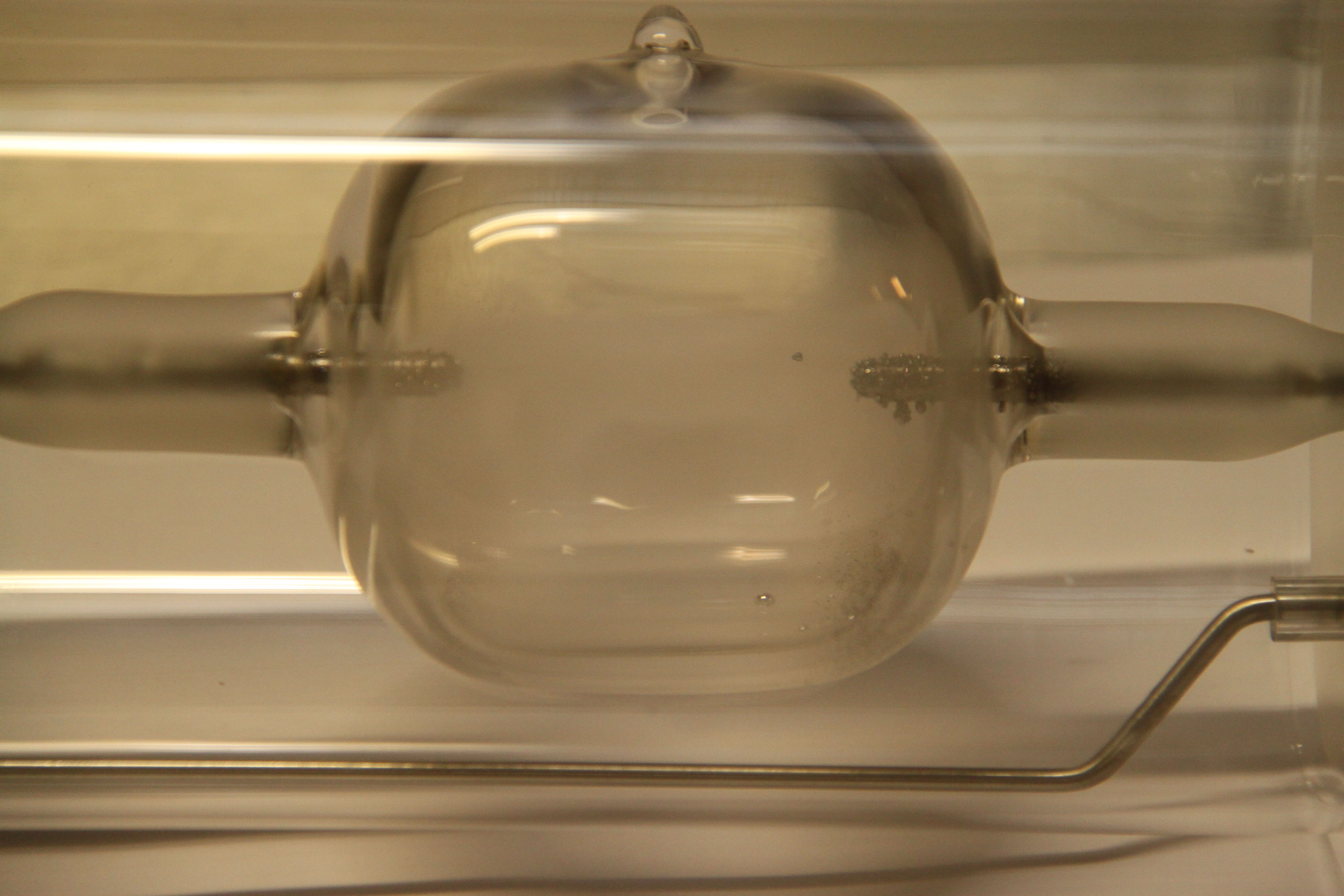 OSRAM HMI 18 kW – Bulb (Hydrargyrum medium-arc iodide lamp)